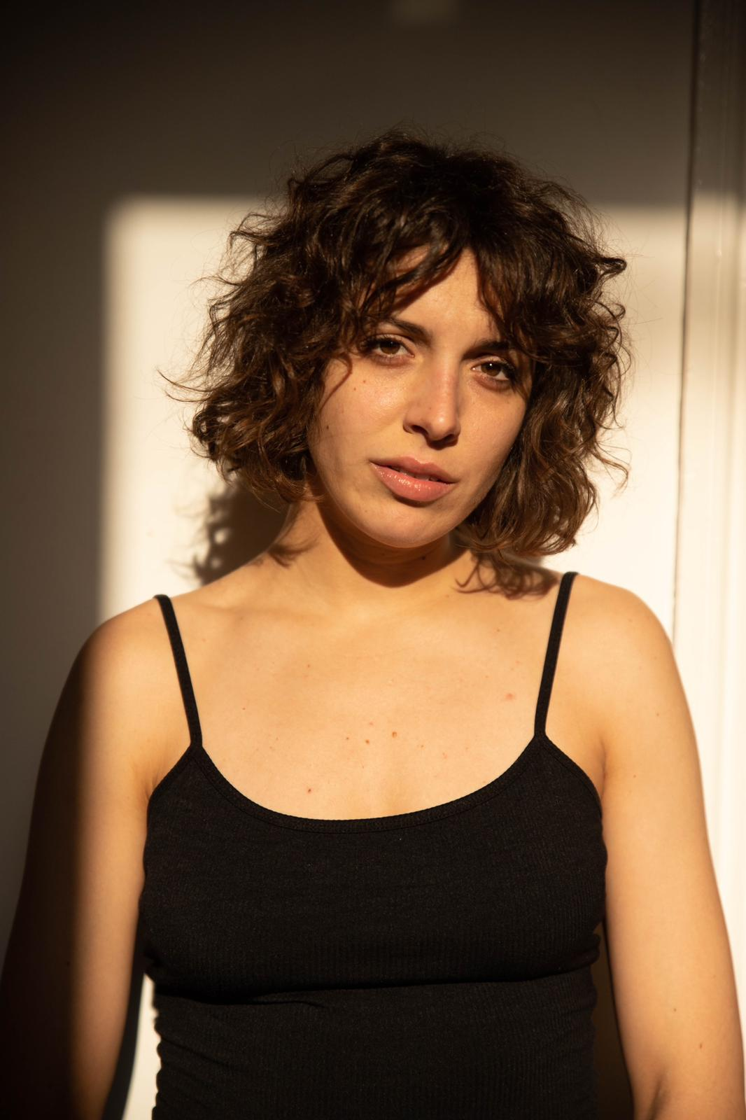 Retrato en Londres